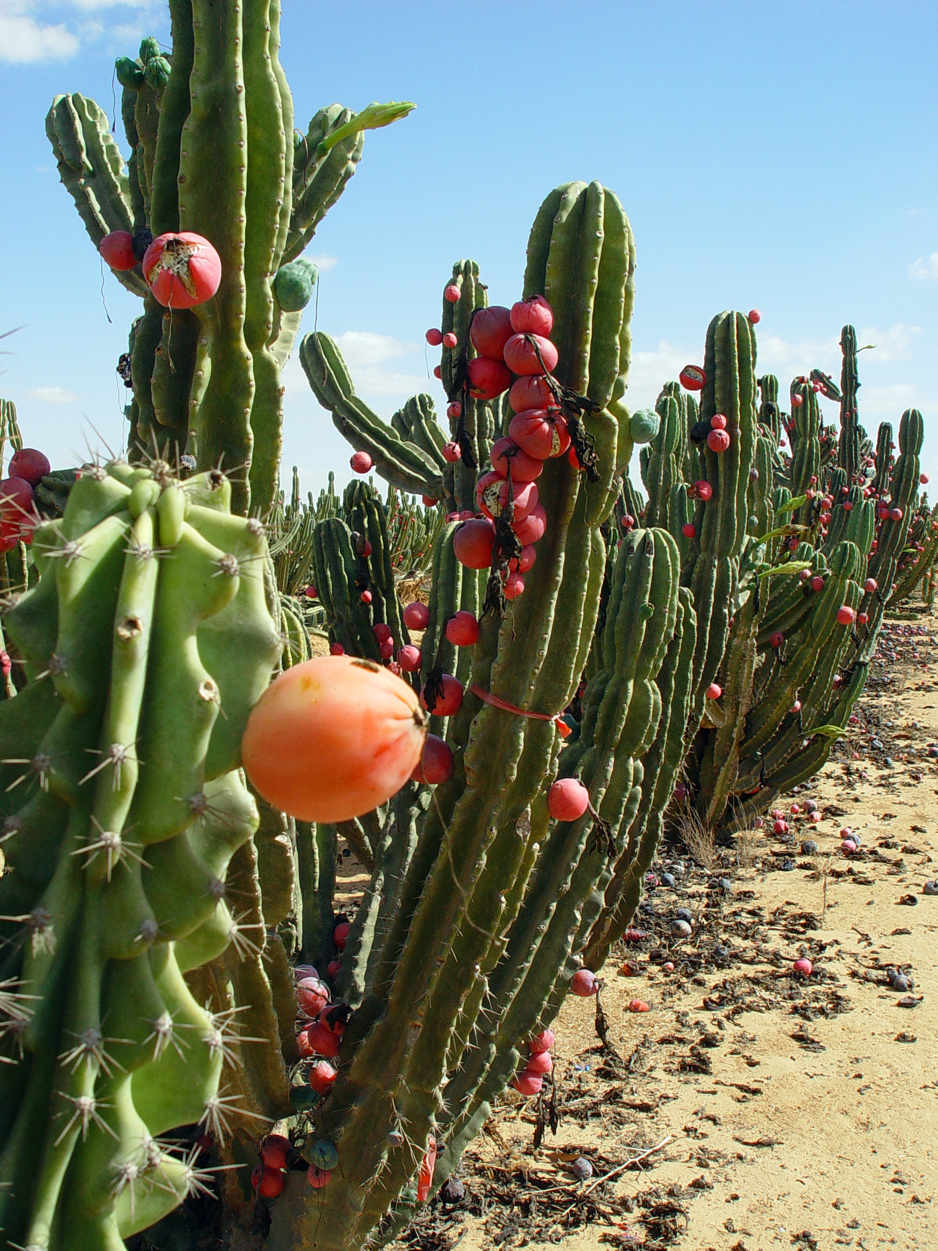 Cereus peruvianus (Cereus repandus) (Pitaya) plants in Sde Nitzan (Israel)